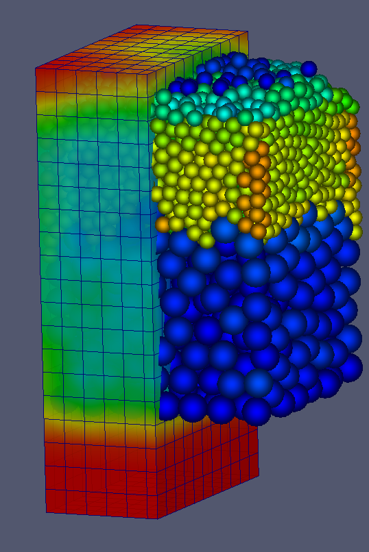 Hot air streaming upward through the packed bed to heat the particles, which dependent on position and size experience different heat transfer rates.